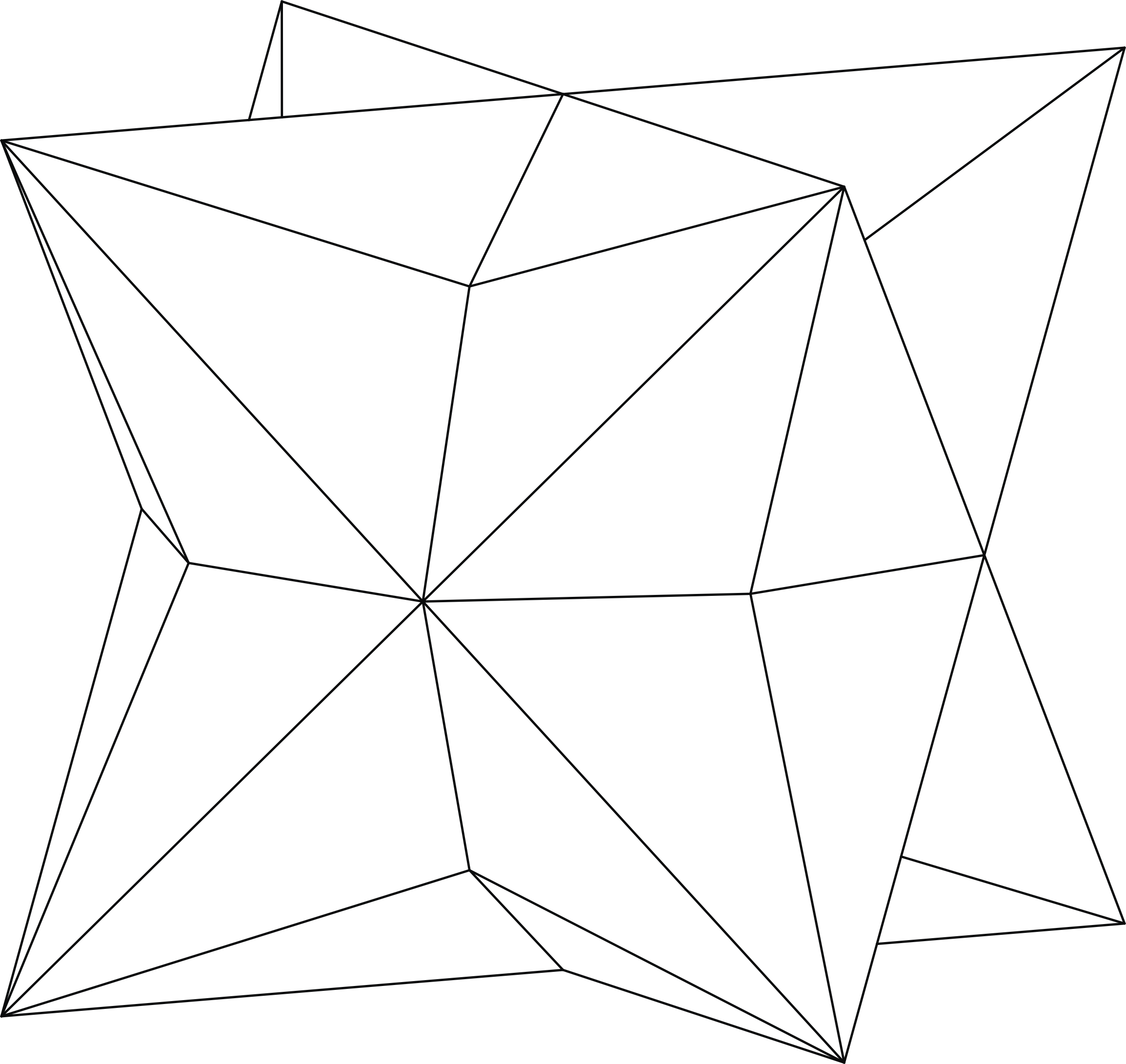 Drawing of Eulytine twin crystal; reference: G. vom Rath (1869), Poggendorffs Annalen Physik Chemie vol. 136, p. 416